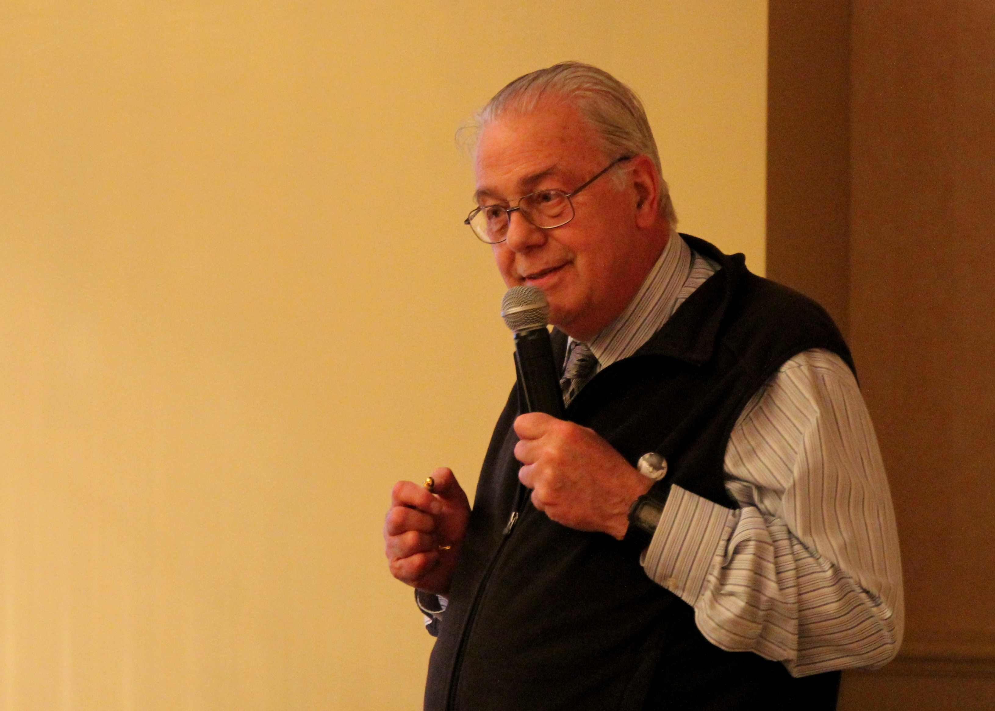 Lectures at SkeptiCal - April 21, 2012 - "This is the year the world will end - or is it?"